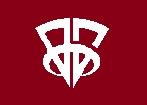 Flag of Showa Gunma